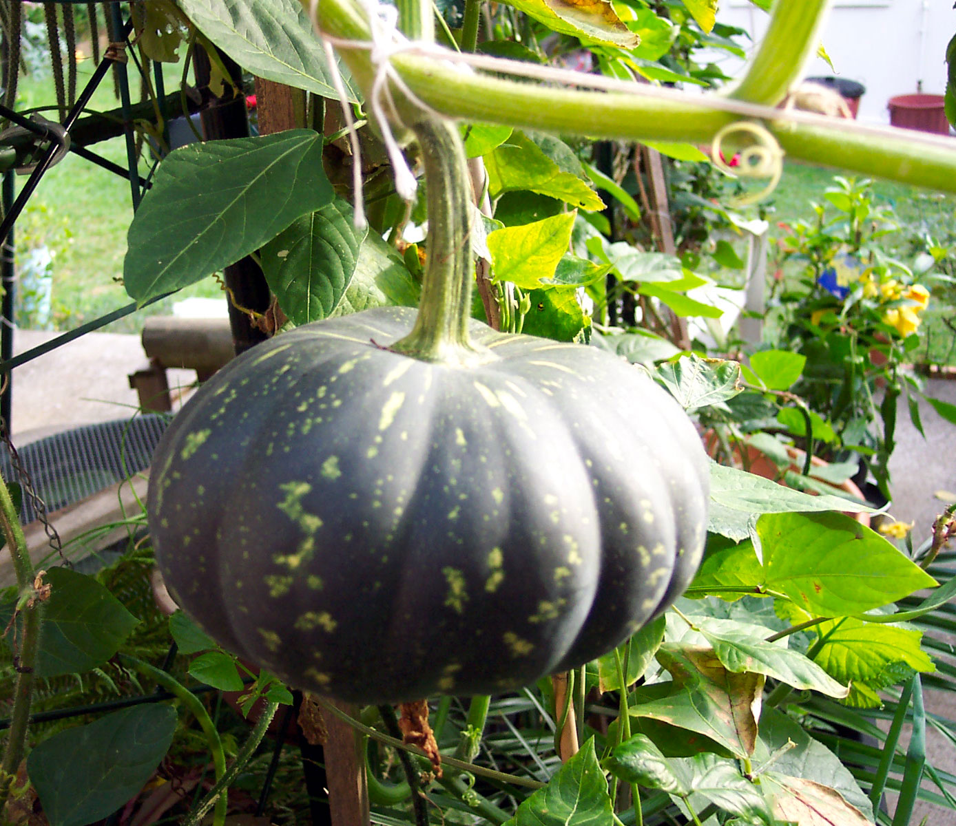 Pumpkin before it has been cut off the plant Taken by Enoch Lau on 22 April 2004. As a courtesy, please let me know if you alter this image or this image description page. Original filename was 100_2755.JPG. Note: This looks like a Japanese pumpkin (also known as Kent or Ken's Special, which is a type of Japanese pumpkin[1]). --Singkong2005 02:04, 1 August 2006 (UTC)